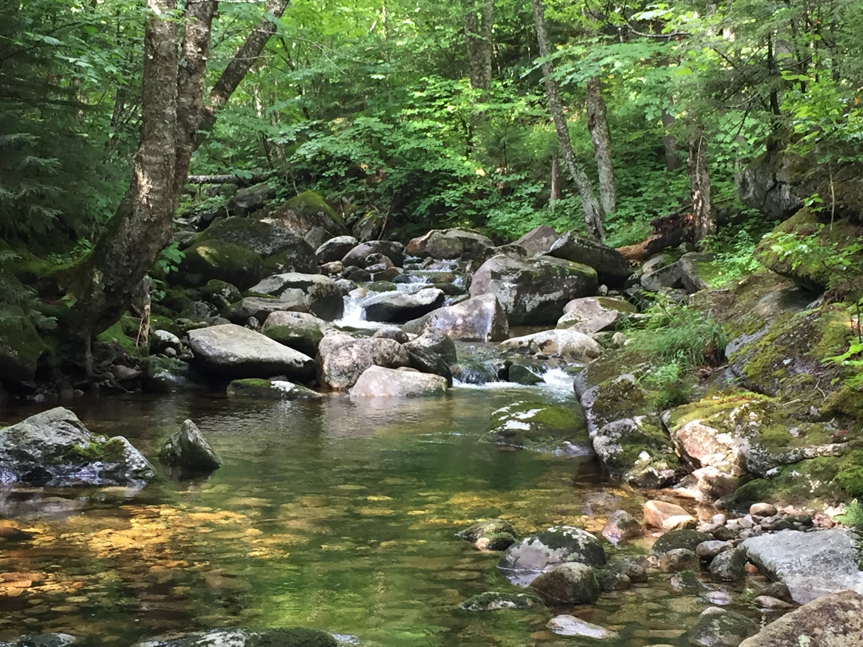 The South Branch Gale River in the White Mountain National Forest, New Hampshire